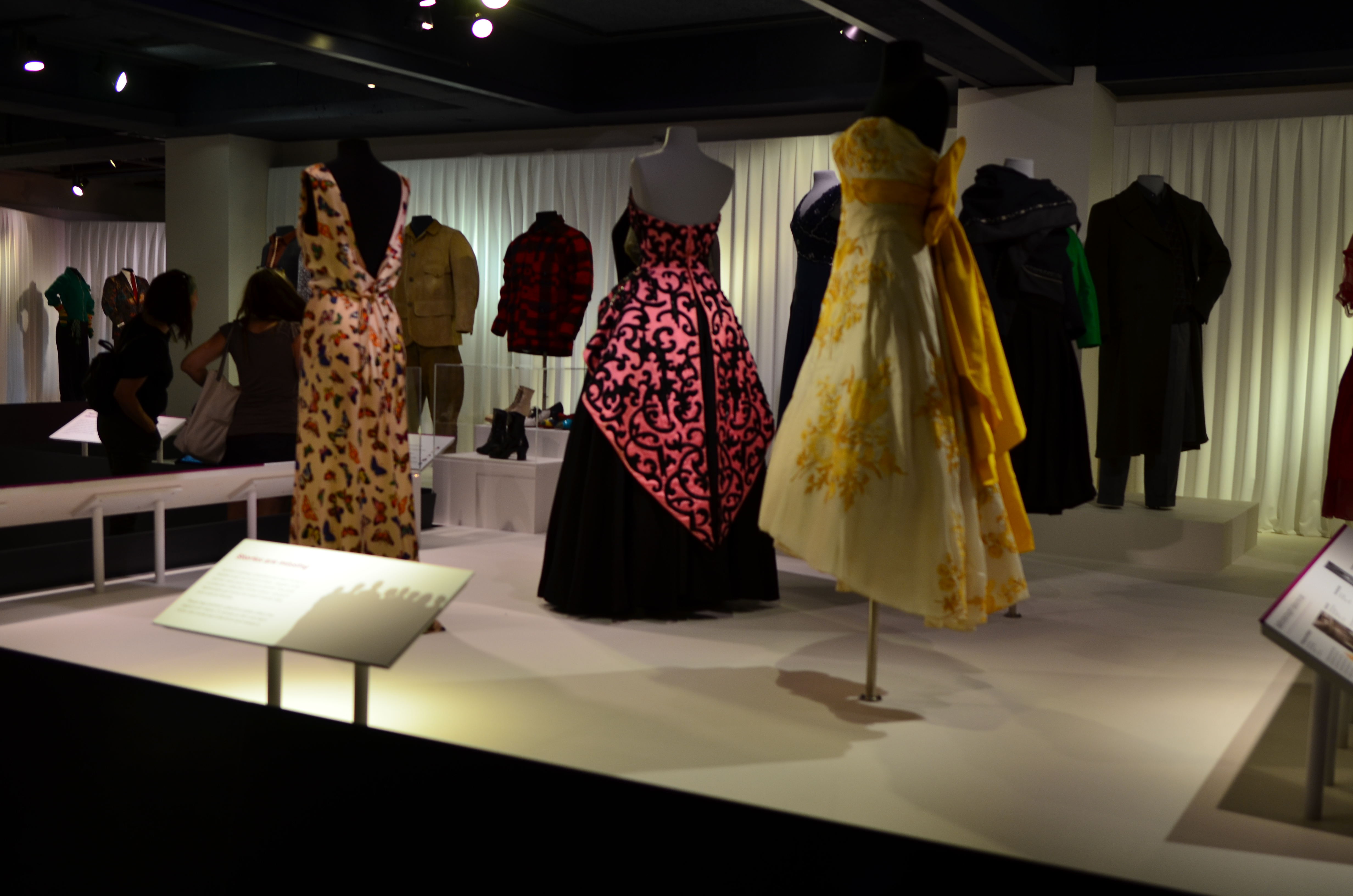 Elsa Schiaparelli dresses, "Seattle Style: Fashion/Function" exhibit (2019), Museum of History and Industy, South Lake Union, Seattle, Washington, USA.